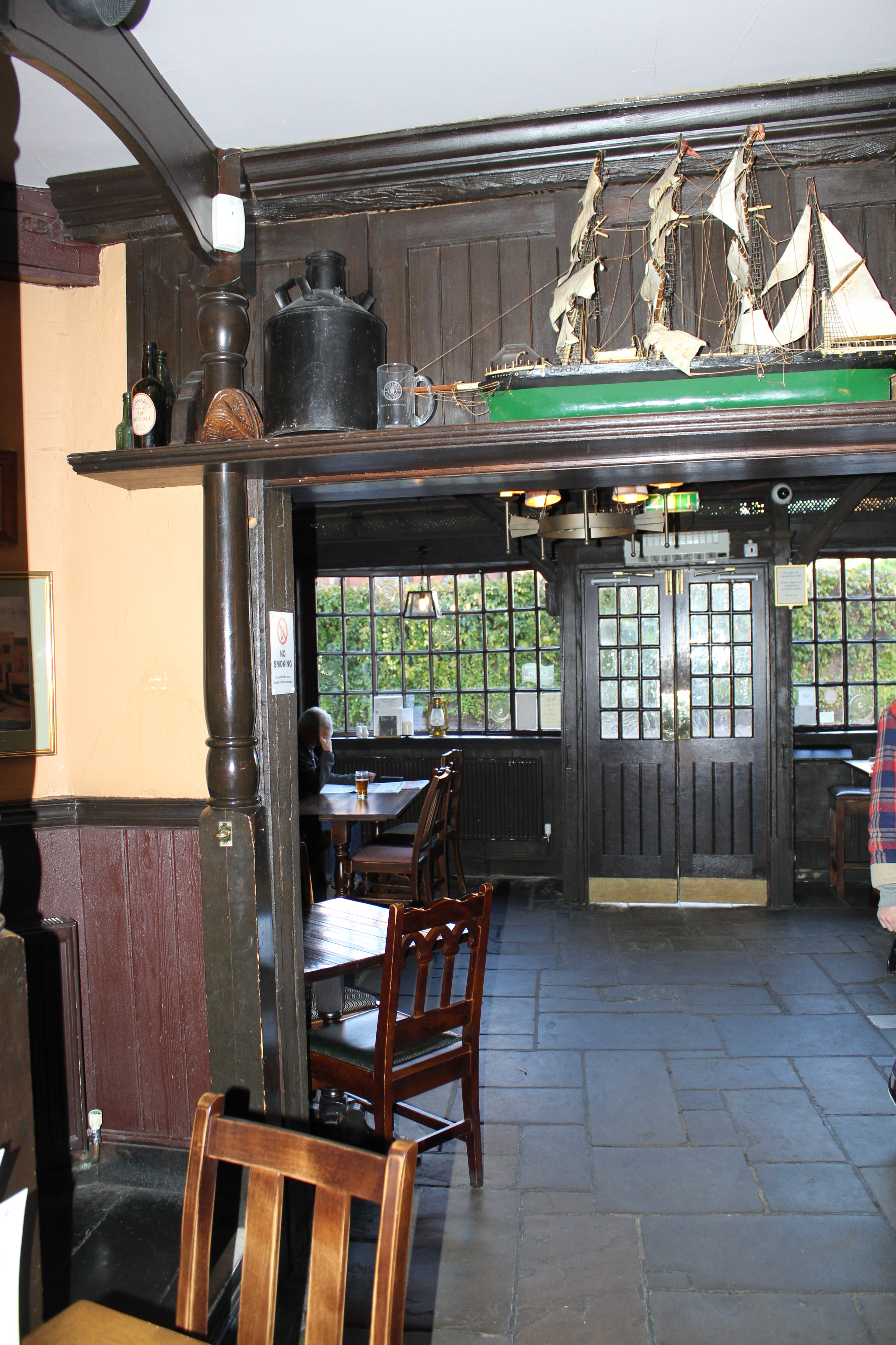 Prospect of Whitby public house, 57 Wapping Wall, Wapping, London E1W 3SH